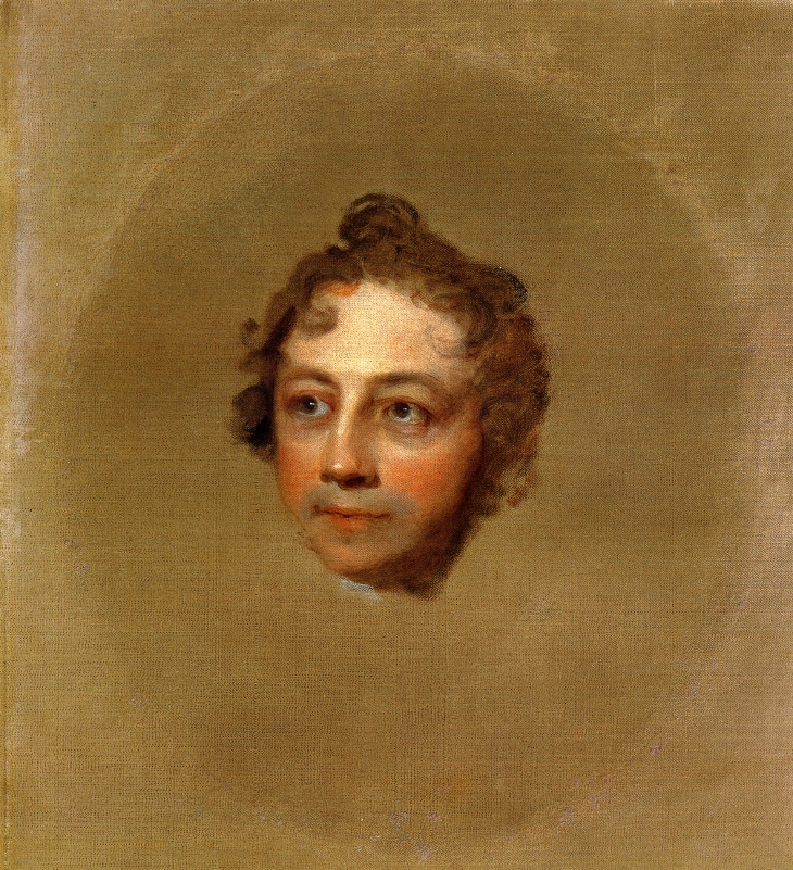 "Washington Allston," oil on canvas, by the American painter Gilbert Stuart. 24 in. x 21.5 in. Courtesy of the Metropolitan Museum of Art, New York. Image courtesy of The Athenaeum.